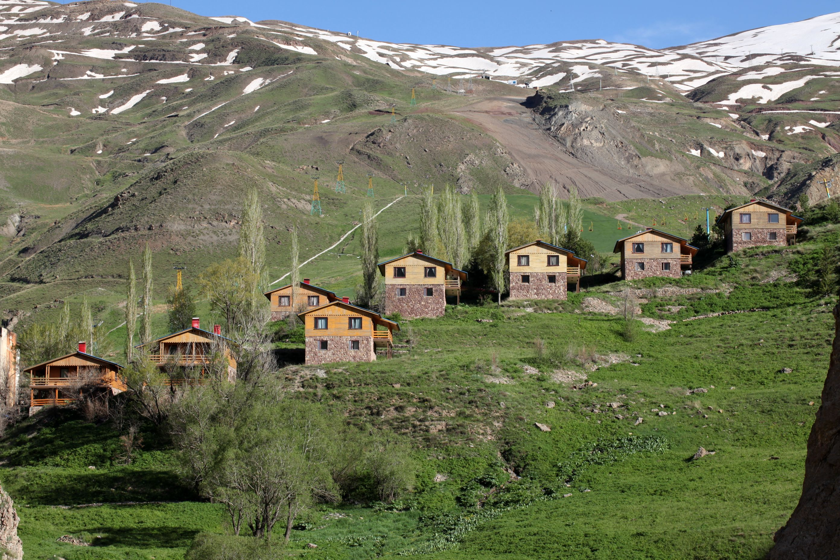 Finnish houses in Dizin, Tehran province, Iran